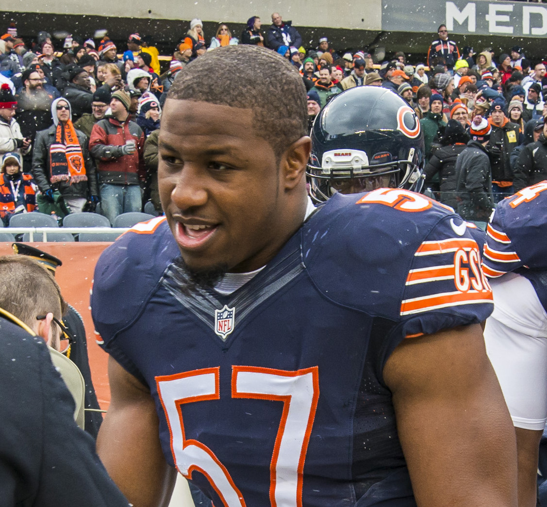 Chicago Bears linebacker, Jon Bostic, in a game against the Minnesota Vikings on November 16, 2014.